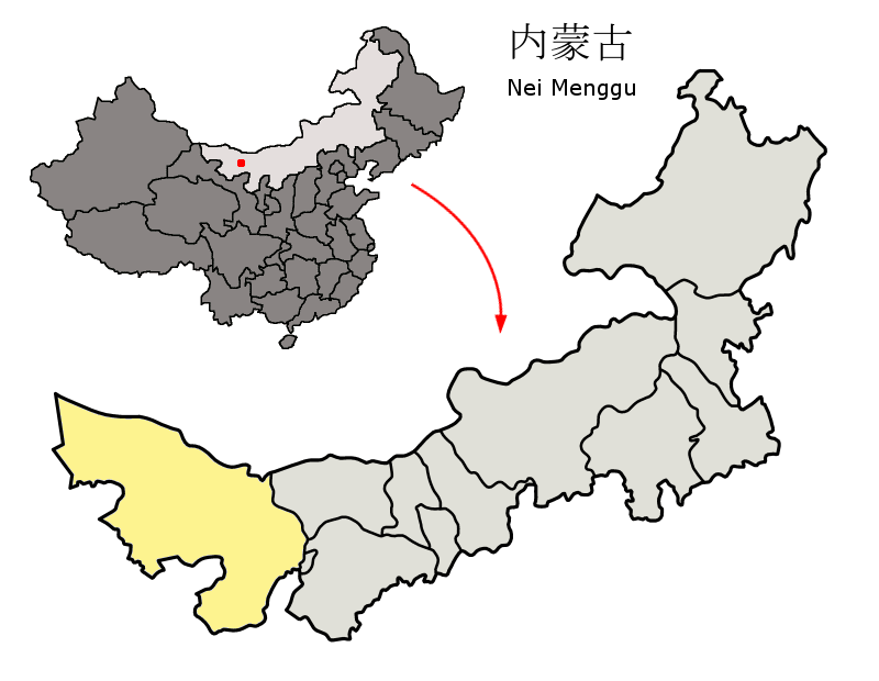 Location of Alxa League (yellow) within Inner Mongolia Autonomous Region of China Map drawn in november 2007 using various sources, mainly : Inner Mongolia Autonomous Region administrative regions GIS data: 1:1M, County level, 1990 Inner Mongolia Counties map from